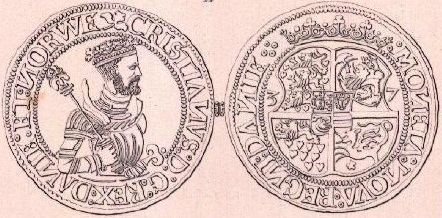 Coin (daler) minted in 1537 by Christian III of Denmark and Norway. (p.152)